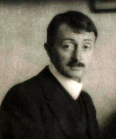 John Masefield, Hampstead, January 1st, 1913.